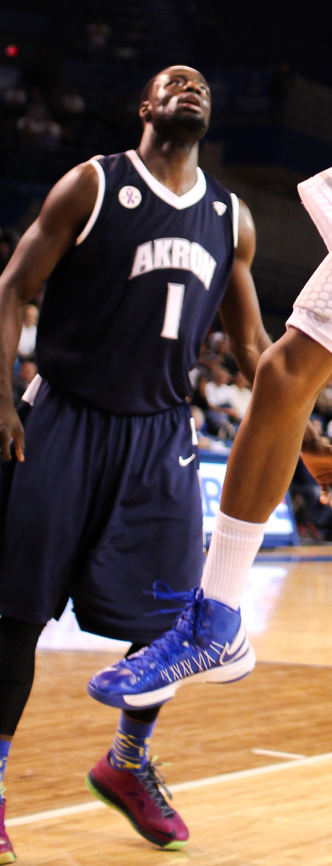 Jarod Oldham Layup